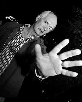 Colin Mochrie in June 2009.